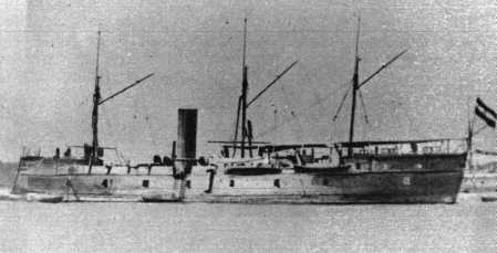 Ironclad Ferdinand Max, admiral ship at battle of Vis, 1866